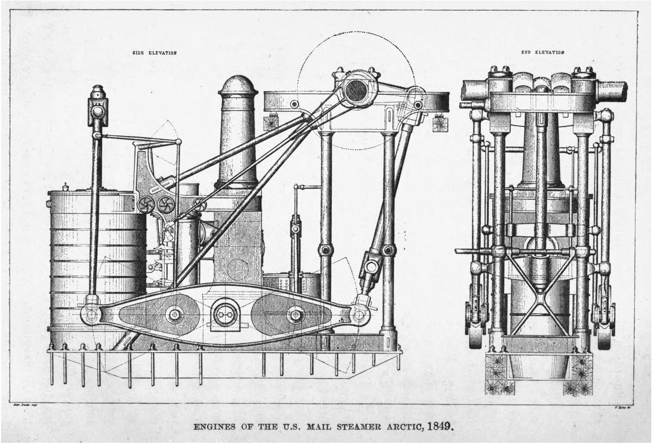 Engine plan of the Collins Line steamship SS Arctic (1849), showing a lateral view of one of the engines at left and transverse view at right. Arctics engines were of the side-lever type.